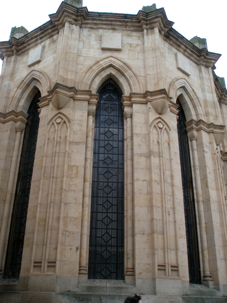 Church of the convent of the Transit of the Virgin, Zamora, Spain.